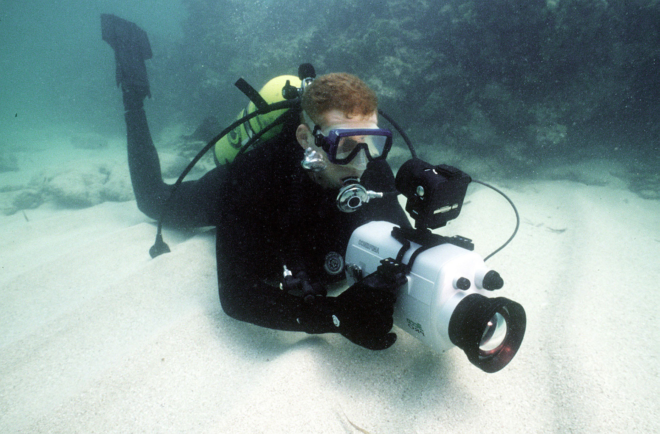 960308-N-3093M-010 KEY WEST, FL (March 8, 1996) Photographer’s Mate 3rd Class Paul Goodknight video tapes off the coast of Key West, FL. U.S. Navy photo by Photographer’s Mate 2nd Class Andrew McKaskle. (RELEASED)